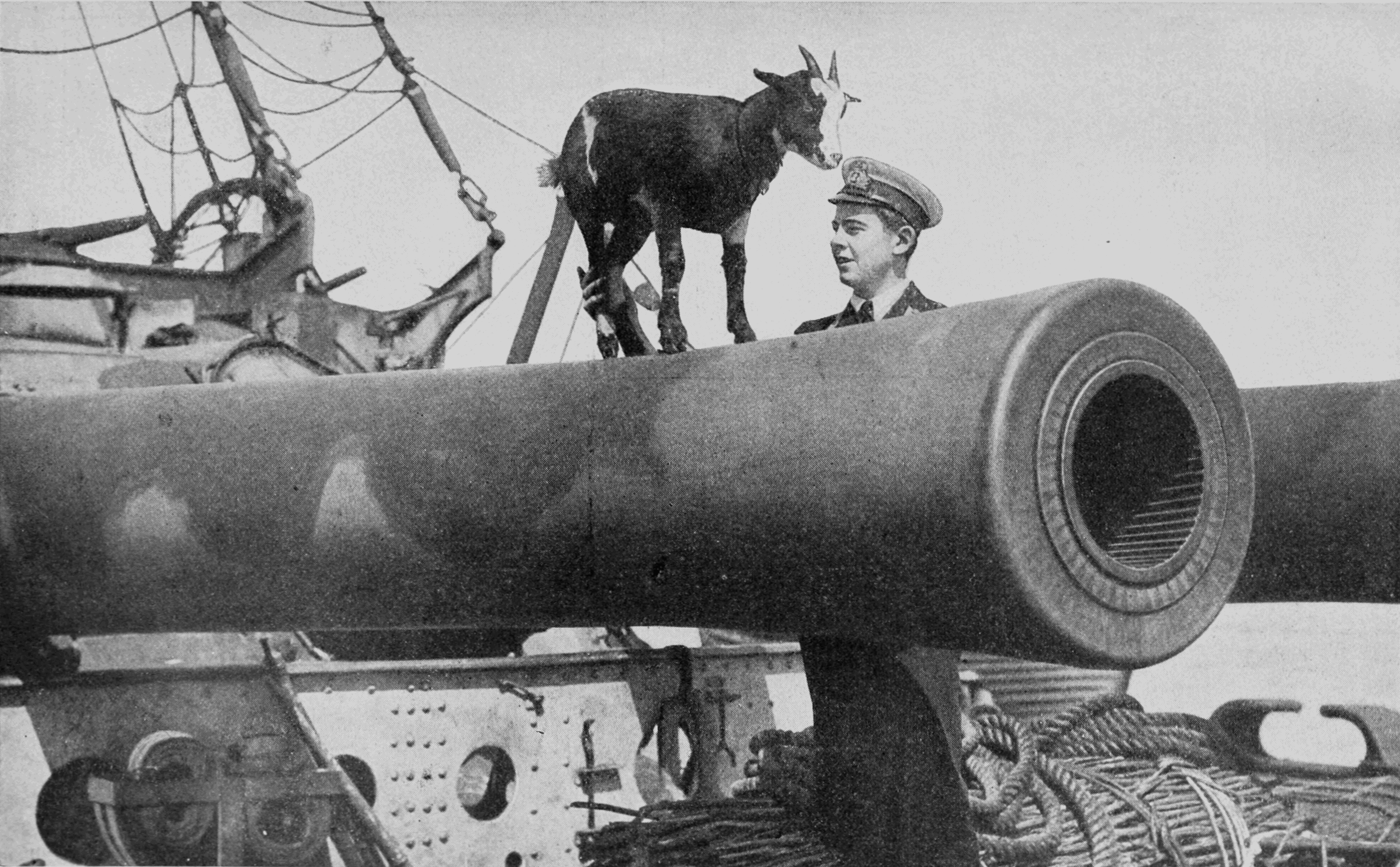 Cannon of British warship HMS Canopus 1916